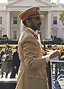 Haile Selassie, Emperor of Ethiopia, during a visit to Washington, October 1st, 1963.